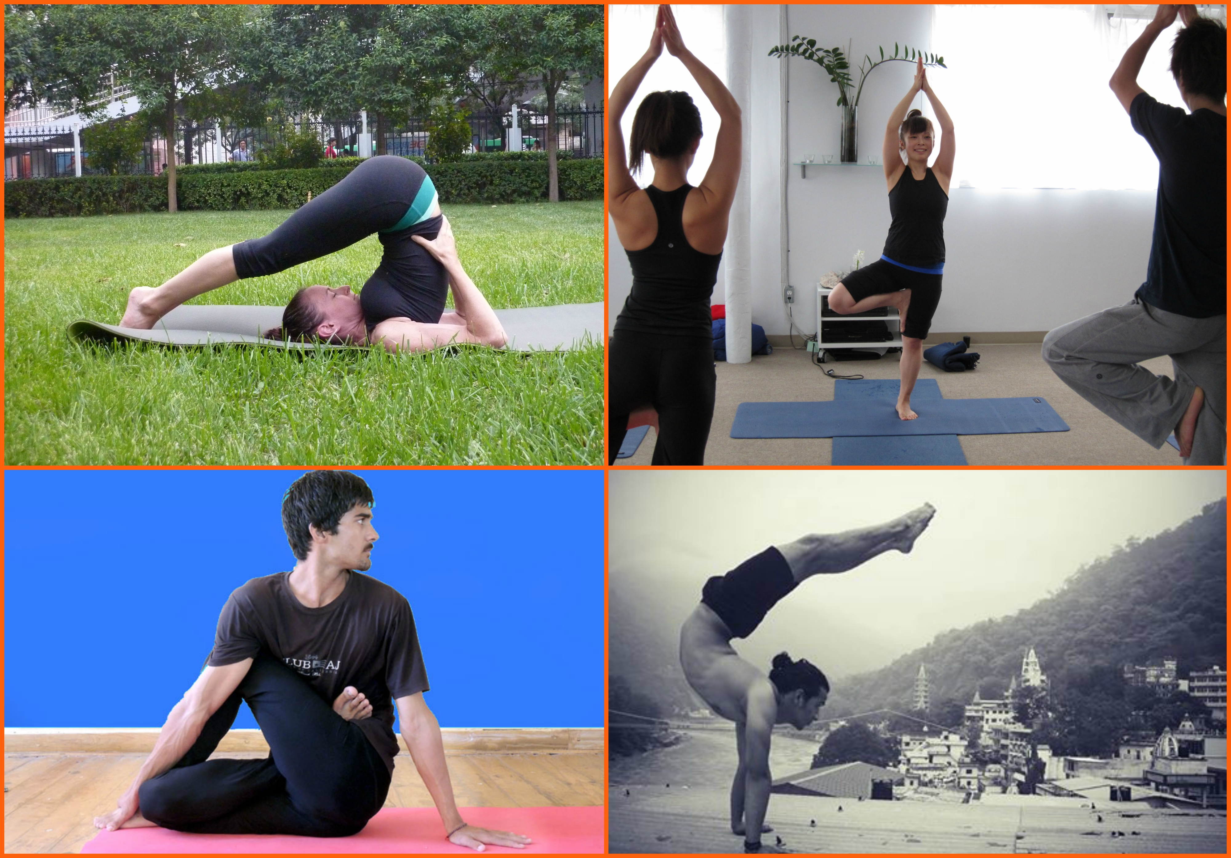 Derivative work on the following wikimedia files available under creative commons: Hatha Yoga, Halasana, Zhengzhou, China.JPG Hatha yoga in Japanese @ Semperviva (4440274580).jpg Yoga-Pose.jpg Vinyasa yoga shala image.jpg